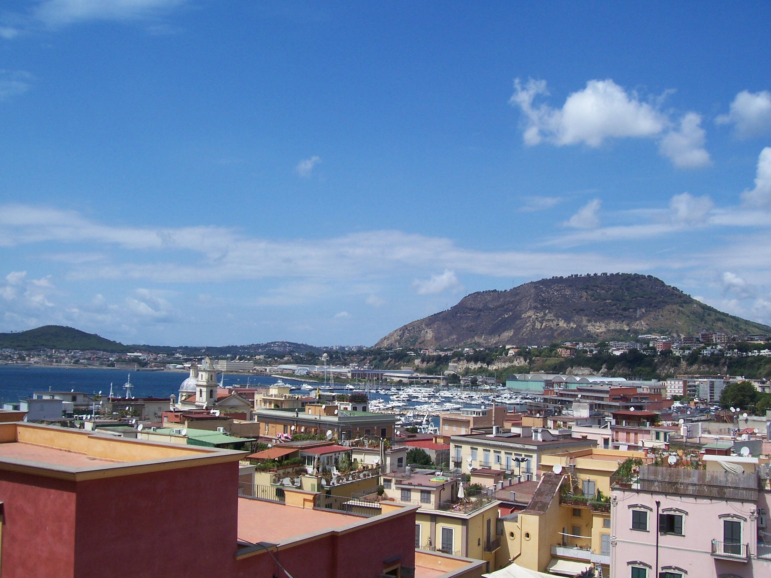 View of Pozzuoli, city of the province of Naples, in the Italian region of Campania. It is the main city of the Phlegrean peninsula.